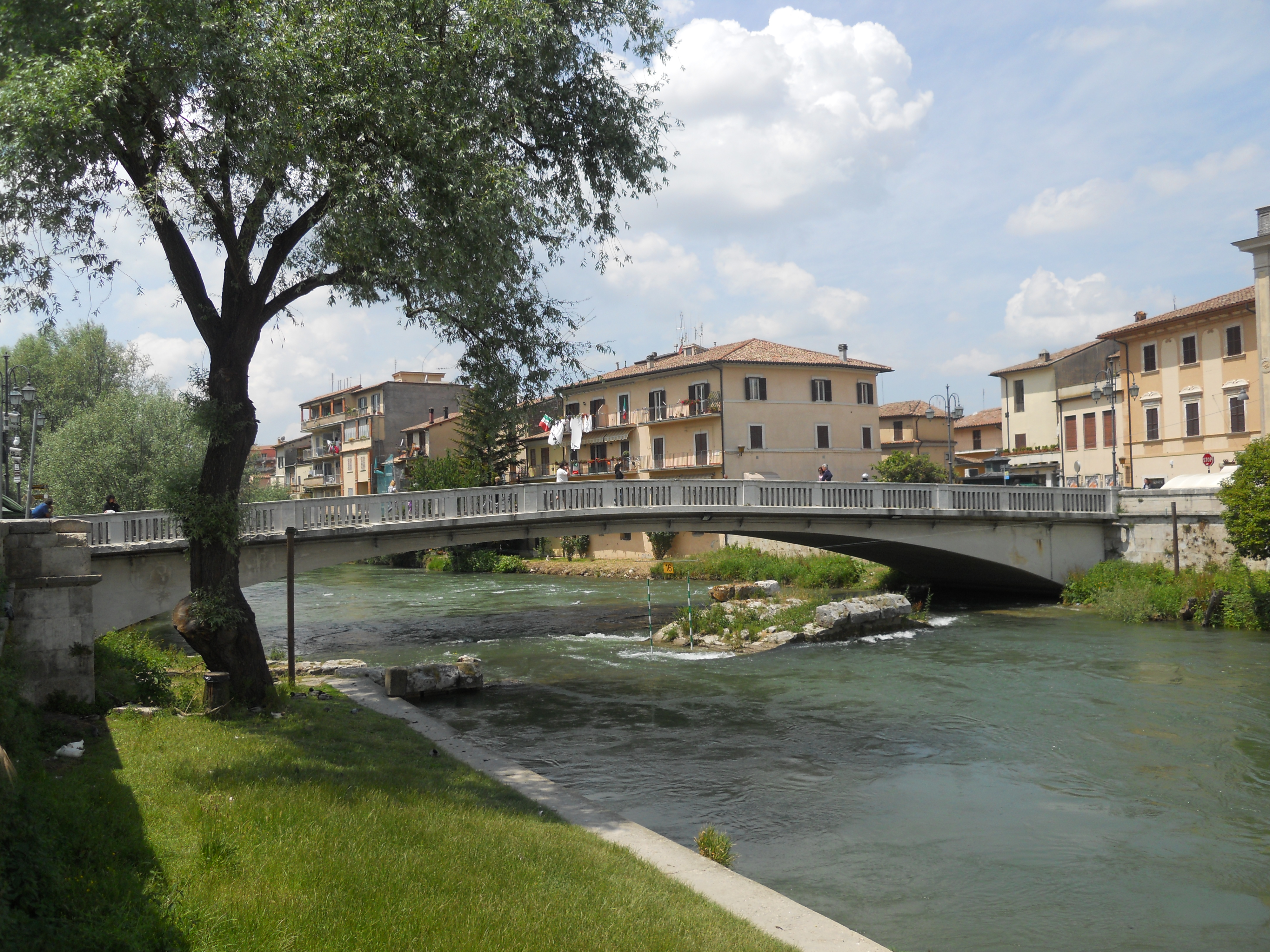 The ancient Roman bridge in Rieti and, above, the newer one